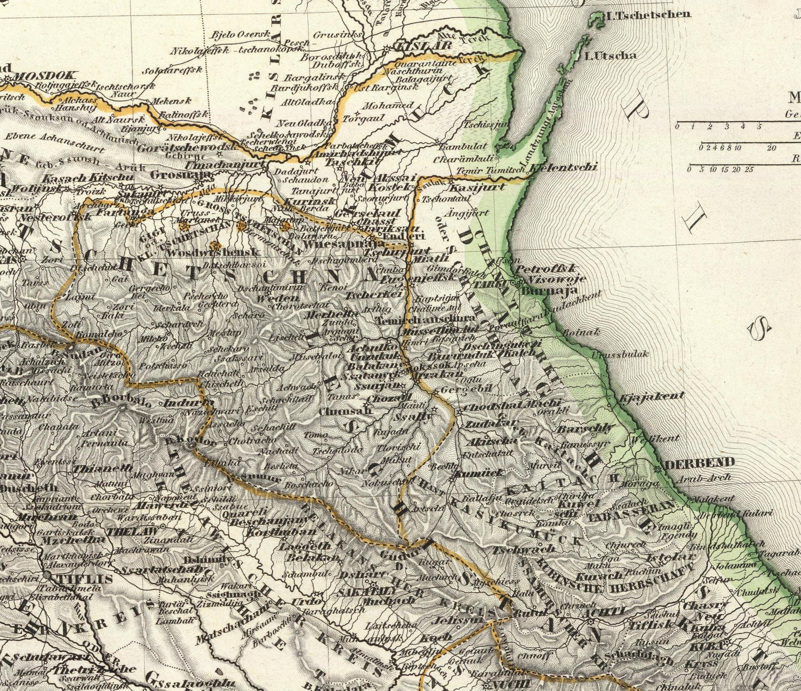 The original plate was published in Joseph Meyer's 1856 Atlas: which being published before 1922 is in the public domain. This was scanned and published on the internet by David Rumsey. The plate of which this is a detail was uploaded to Wikimedia Commons by 'Andzork' as This detail of it was uploaded by me, maproom, in response to this request at the Wikipedia Map Workshop.